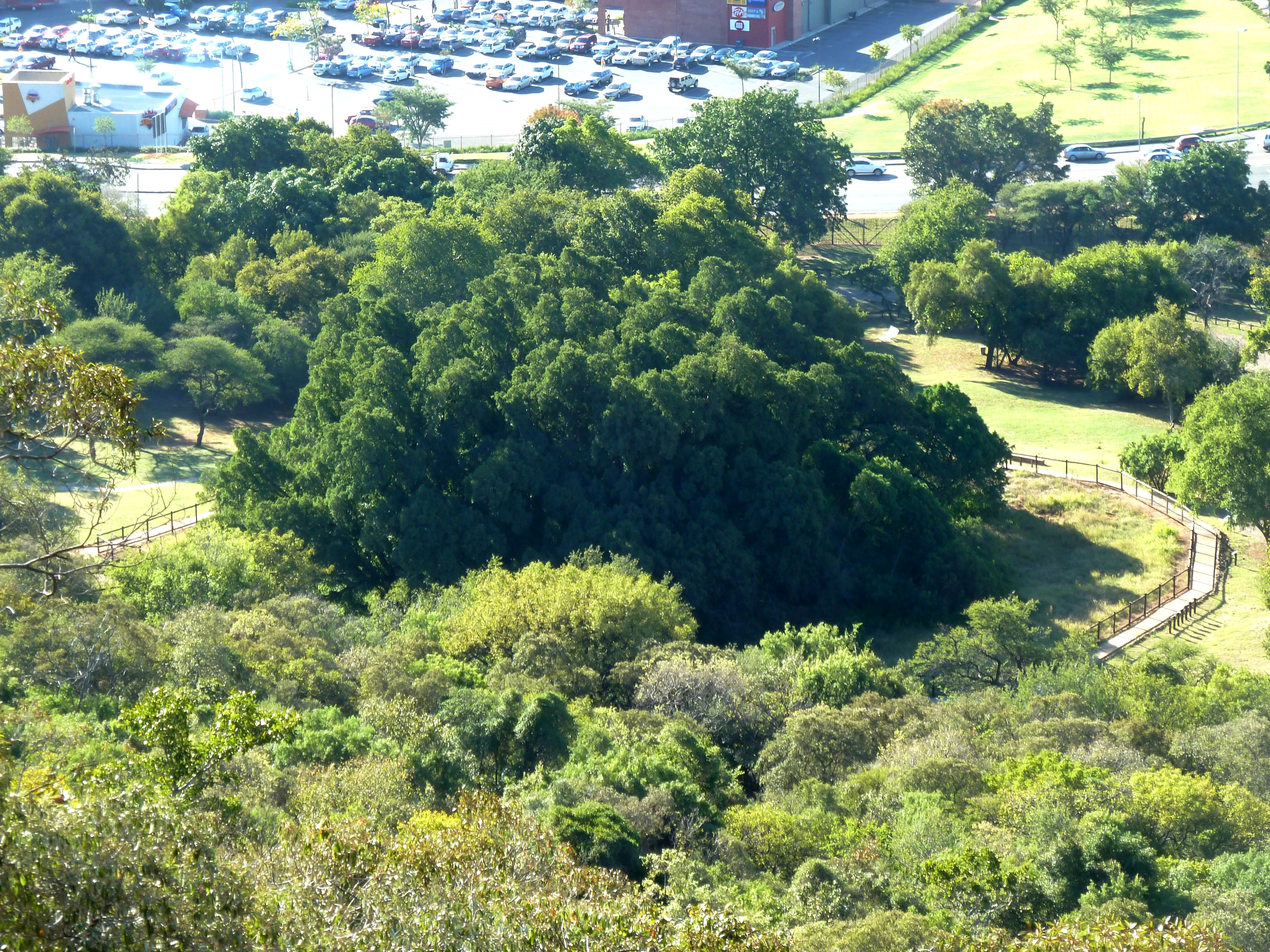 The Wonderboom grove in the Wonderboom Nature Reserve, Pretoria